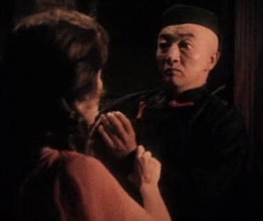 Mary Tyler Moore and Jack Soo in Thoroughly Modern Millie - trailer (cropped screenshot)